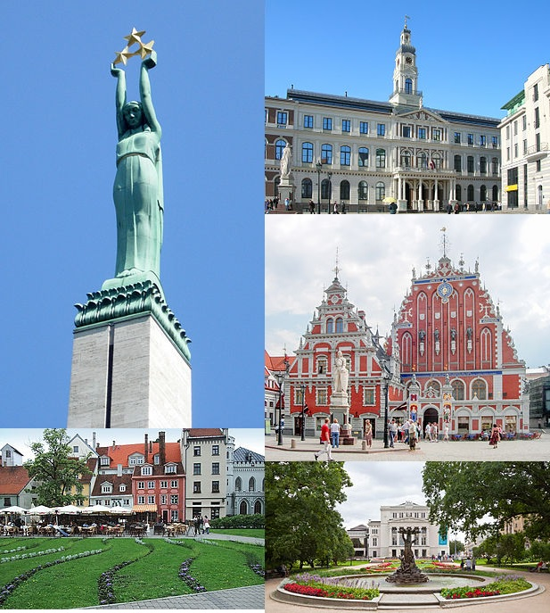 From top, left to right: the Freedom Monument, the Riga City Council building, the building of the Brotherhood of Blackheads, Līvu Square, and the Latvian National Opera